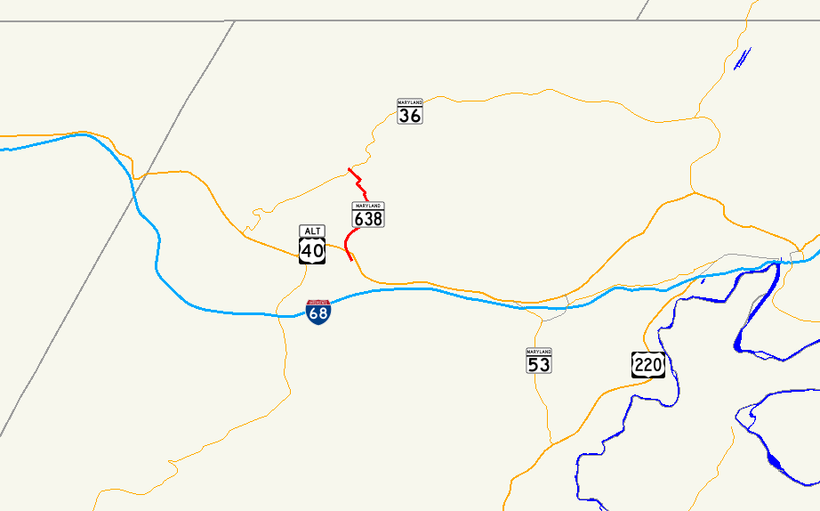 Map of Maryland Route 638